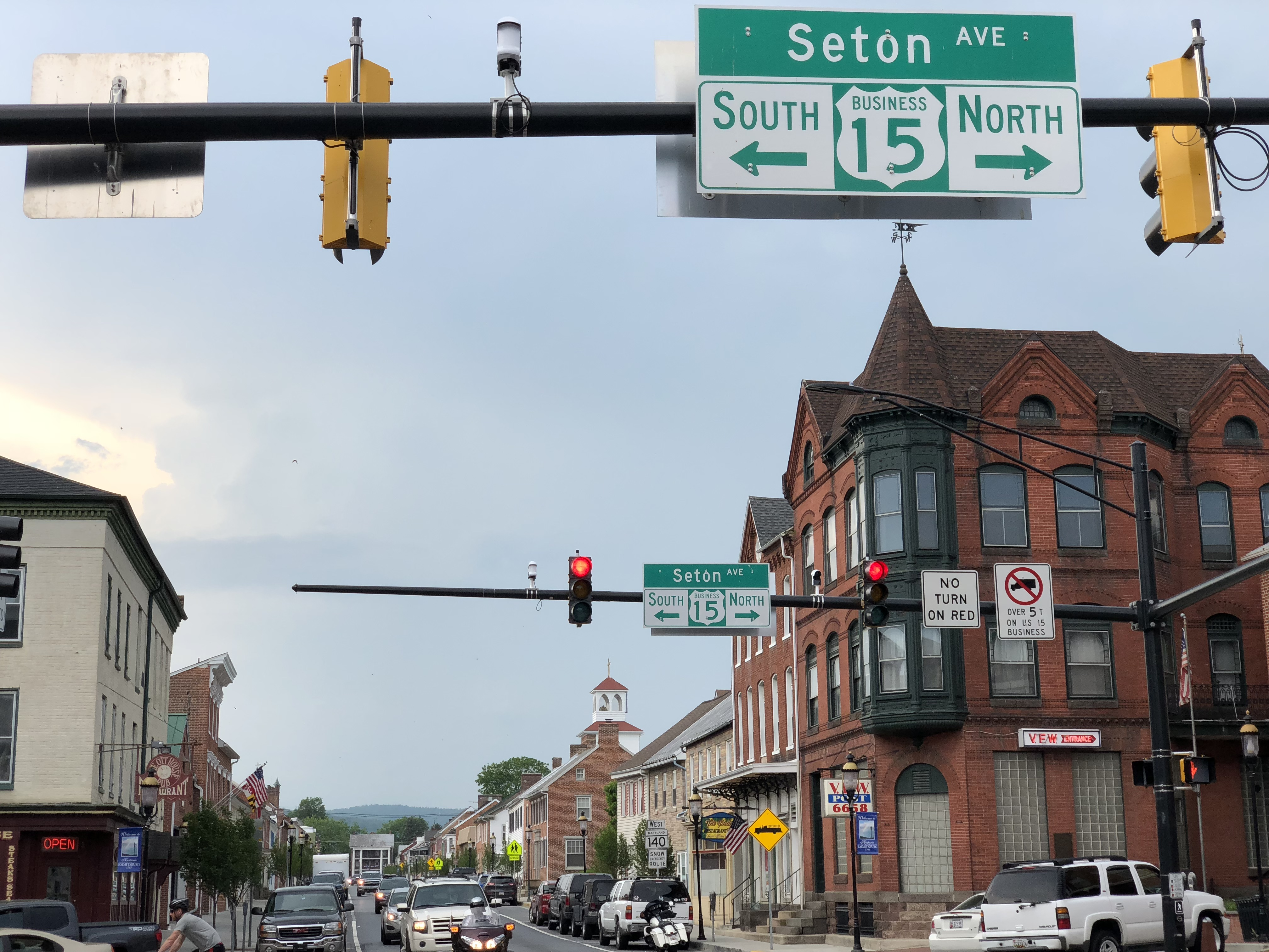 View west along Maryland State Route 140 (Main Street) at U.S. Route 15 Business (Seton Avenue) in Emmitsburg, Frederick County, Maryland